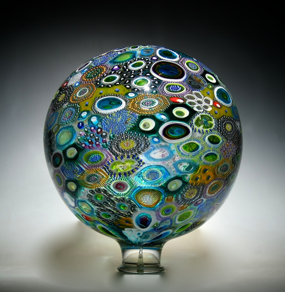 Mixed Murrine Sphere; Glass sculpture by David Patchen. Blown glass; murrine